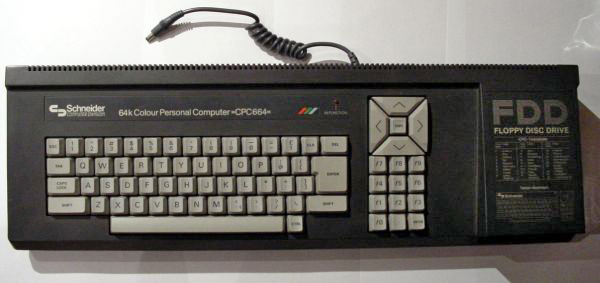 A Schneider CPC 664 computer (German version of the Amstrad CPC 664)